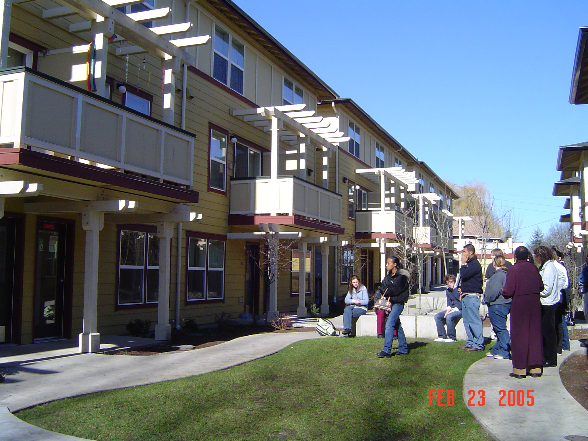 This photo was taken on a UW Tacoma class field trip in 2005.